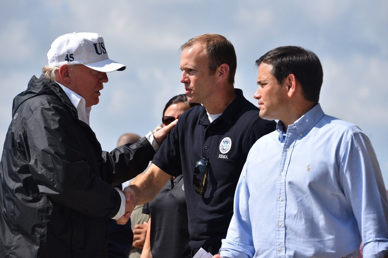 President Donald Trump greets FEMA Administrator Brock Long and Sen. Marco Rubio shortly after arriving in Ft. Meyers, Fla., Sept. 14, 2017. The event was the first stop on a visit to thank first responders and meet with victims of Hurricane Irma. Coast Guard photo by Petty Officer 1st Class Patrick Kelley.